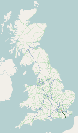 Map of the A11 road. Map of the A21 road.